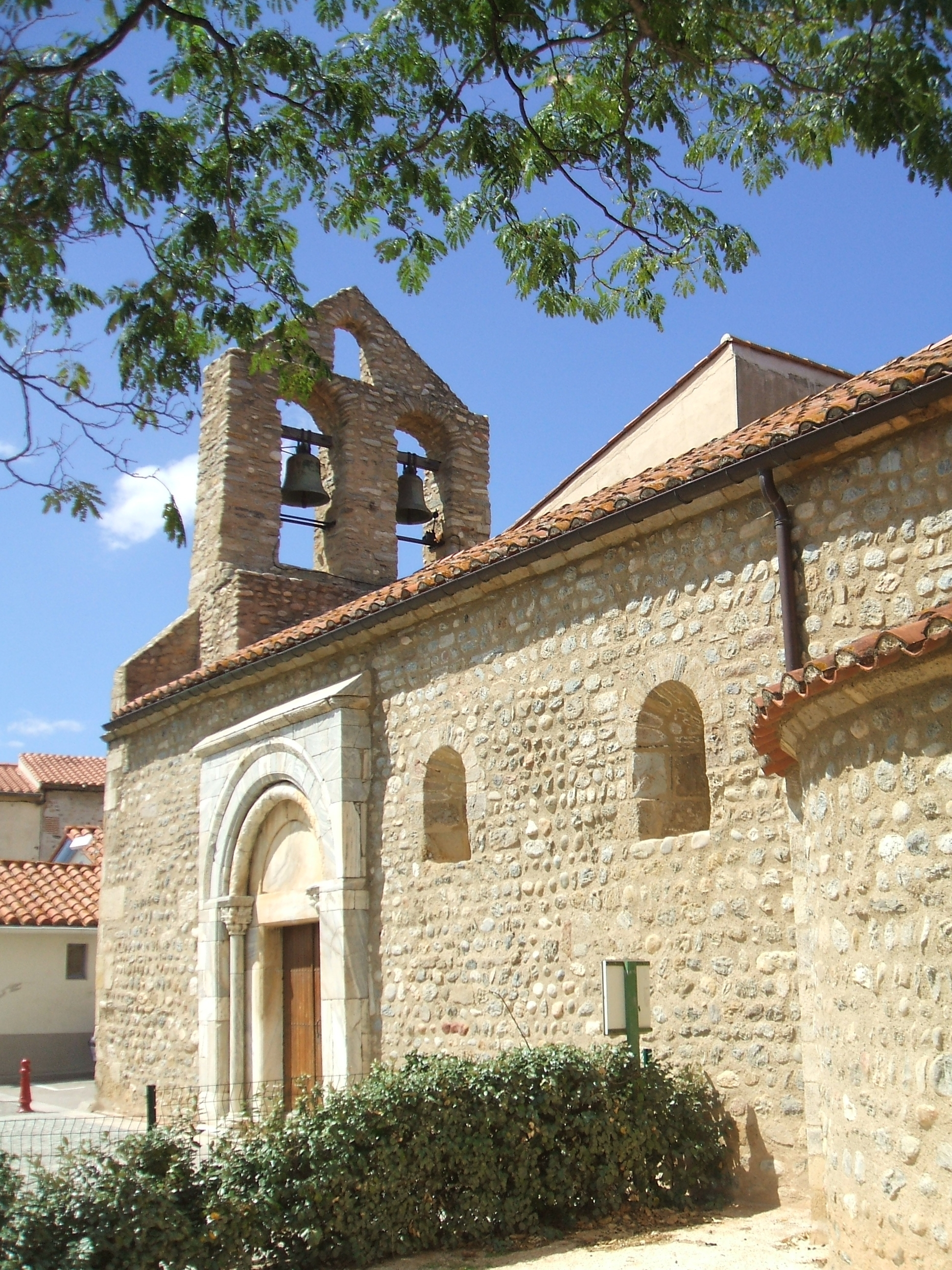 Brouilla (Pyrénées-Orientales département, Languedoc-Roussillon région, France) : Sainte-Marie church (XIIth century). Northwestern view, with the southern wall, the belfry and the portal.